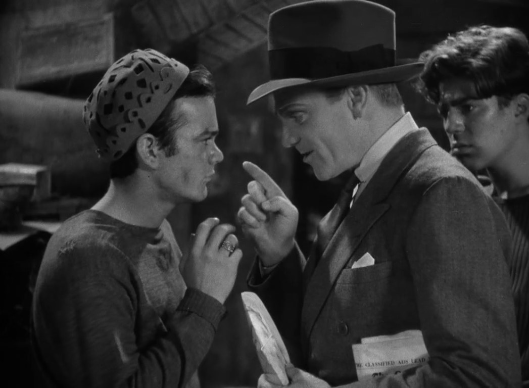 screenshot of Leo Gorcey and James Cagney from the film Angels with Dirty Faces